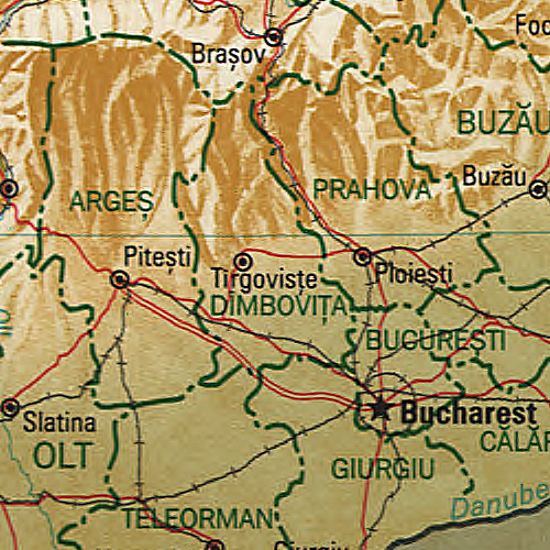 Map of Dâmbovița County, Romania.